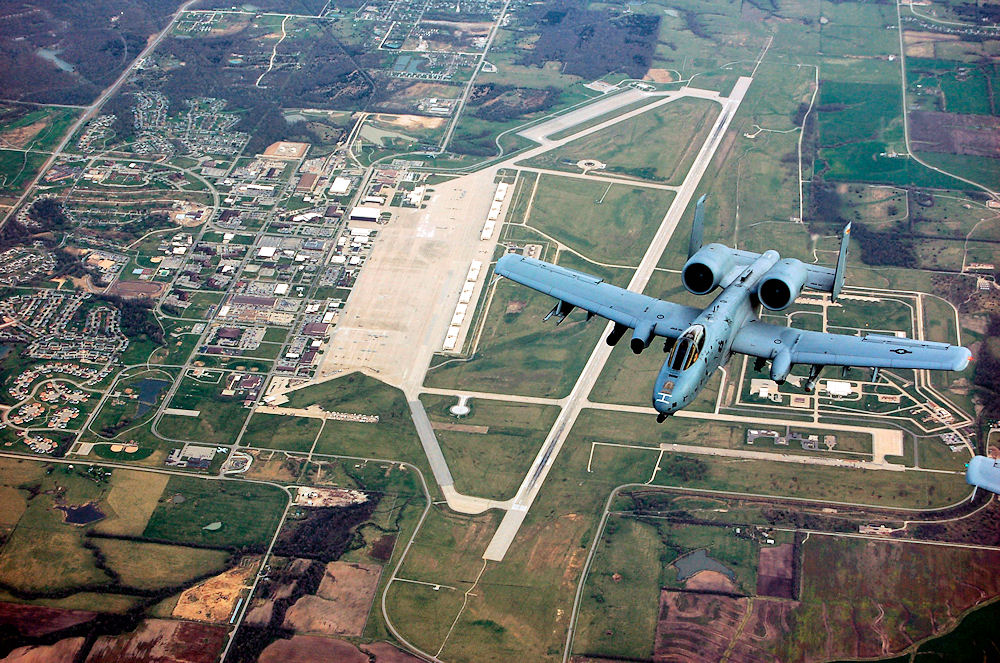 A-10 over Whiteman Air Force Base Maj. Les Bradfield, A-10 Thunderbolt II pilot, flies a 303rd Fighter Squadron A-10 over Whiteman Air Force Base in formation behind a KC-135 Stratotanker April 11 for the combined 442nd Fighter Wing and 509th Bomb Wing civic leader tour. Twenty-seven business and government leaders from throughout Missouri participated in the tour, which showcased Edwards AFB, Calif., and McChord AFB, Wash. (Photo by Maj Joe DellaVedova, 509th BW public affairs)